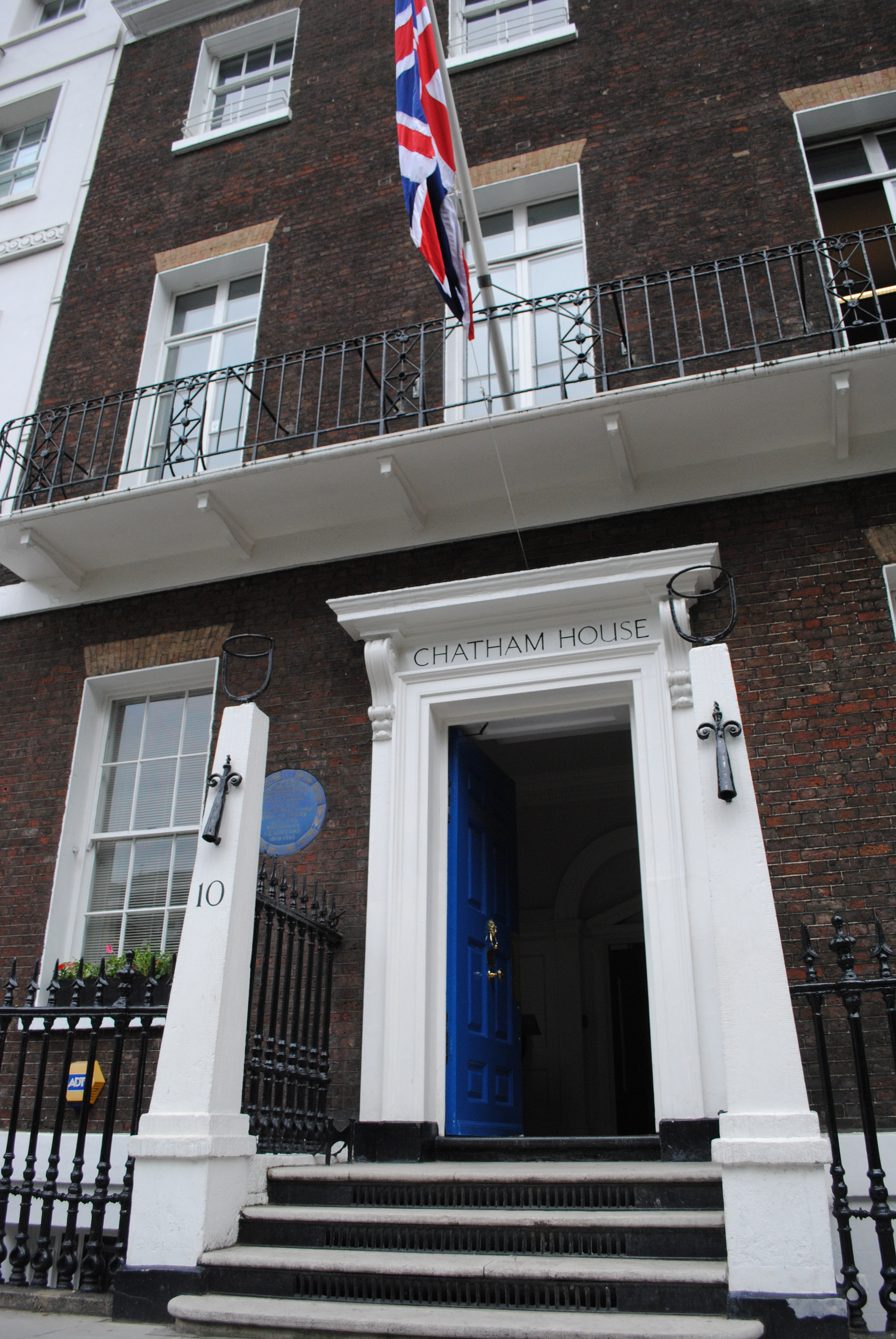 Chatham House over the Jubilee weekend